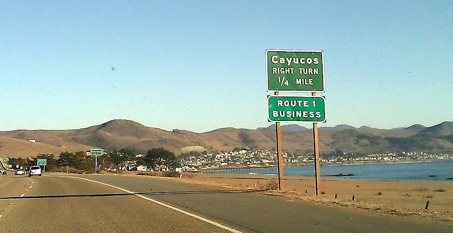 Southbound California State Route 1 (CA SR-1) approaching the northern Cayucos, California city limits. The city of Cayucos can be seen in the center background and the Morro Bay in the right background. View from the southbound lane CA SR-1 looking west.The photograph was taken with an an HTC 7 Pro mobile phone and edited (color balance, brightness, contrast) using ArcSoft PhotoStudio 5.5